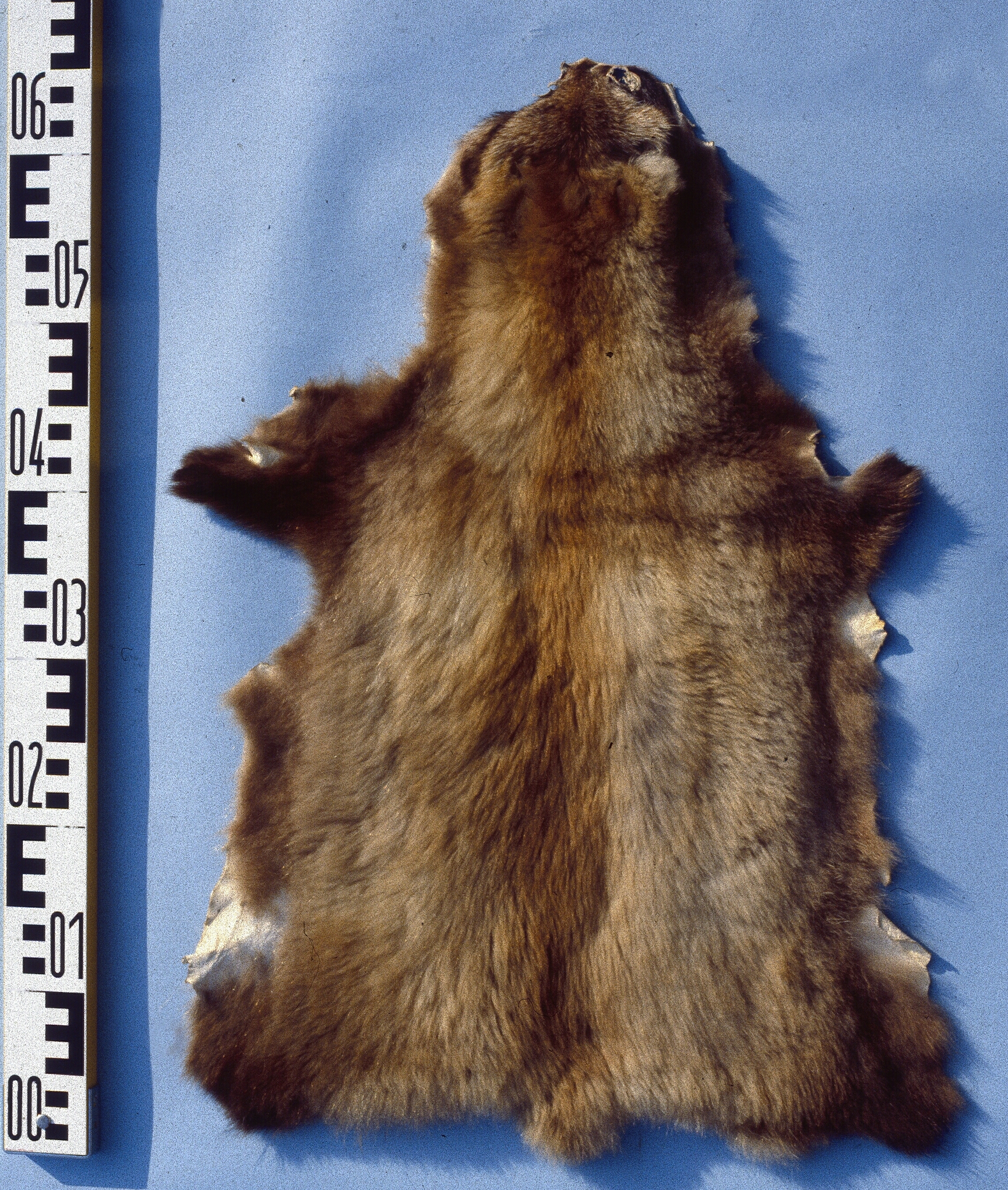 Raccoon dog fur skin (de-haired) (Nyctereutes procyonoides). Fur skin collection, Bundes-Pelzfachschule, Frankfurt/Main, Germany